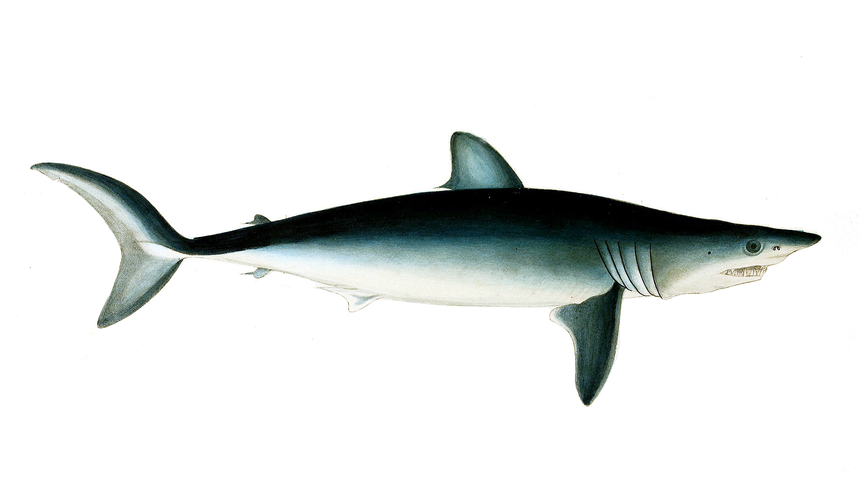 Isurus oxyrinchus